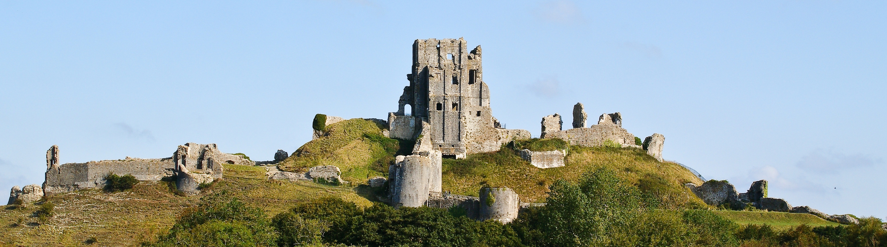 A view of Corfe Castle from just outside the village of the same name.